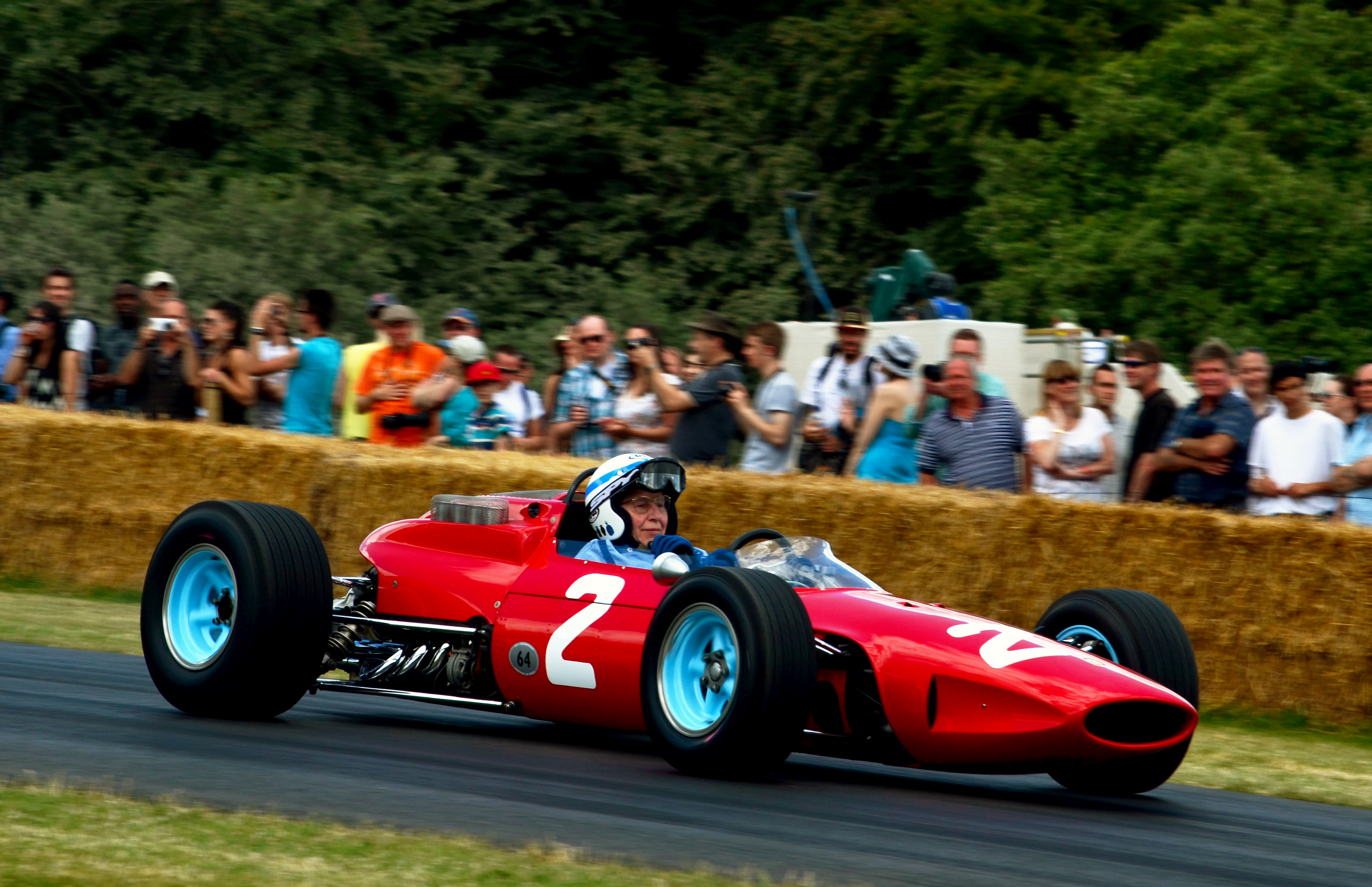 John Surtees driving his championship winning 1964 Ferrari 158 at the 2014 Goodwood Festival of Speed.